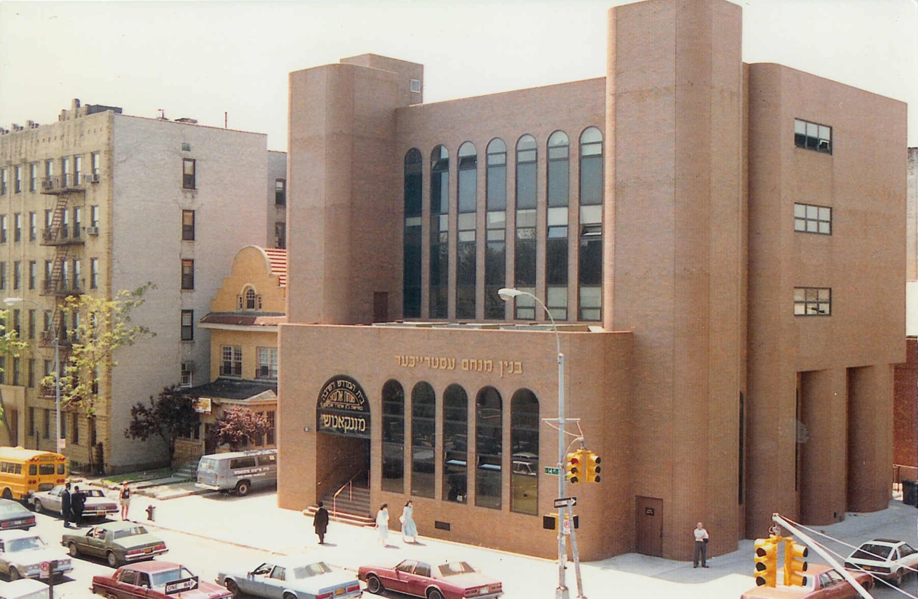 Looking west across 14th Avenue and 47th Street at Munkacs World Headquarters in Boro Park, Brooklyn